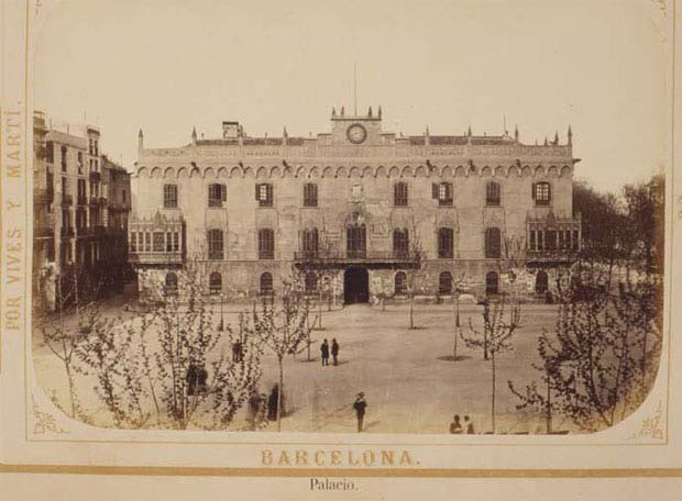 Old Royal Palace at Barcelona, burnt and demolished in 1875, and Pla del Palau